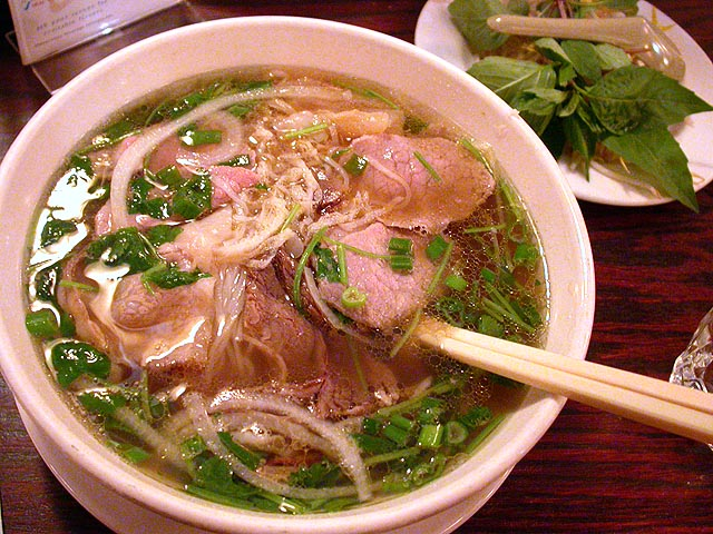 Typical beef phở